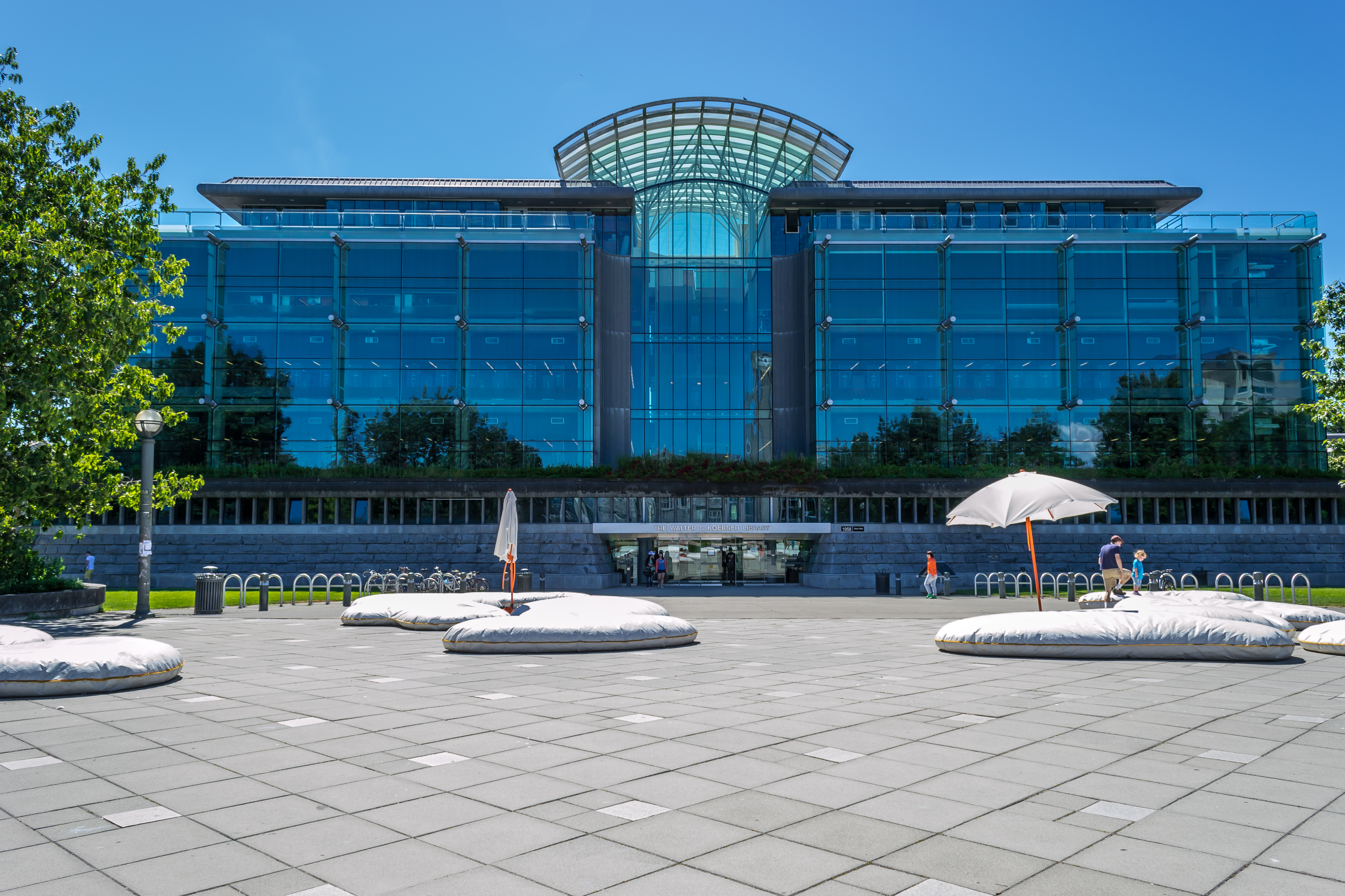 Walter C. Koerner Library, one of the libraries of the University of British Columbia. Finished in 1996. Address: 1958 Main Mall, Vancouver, BC, Canada